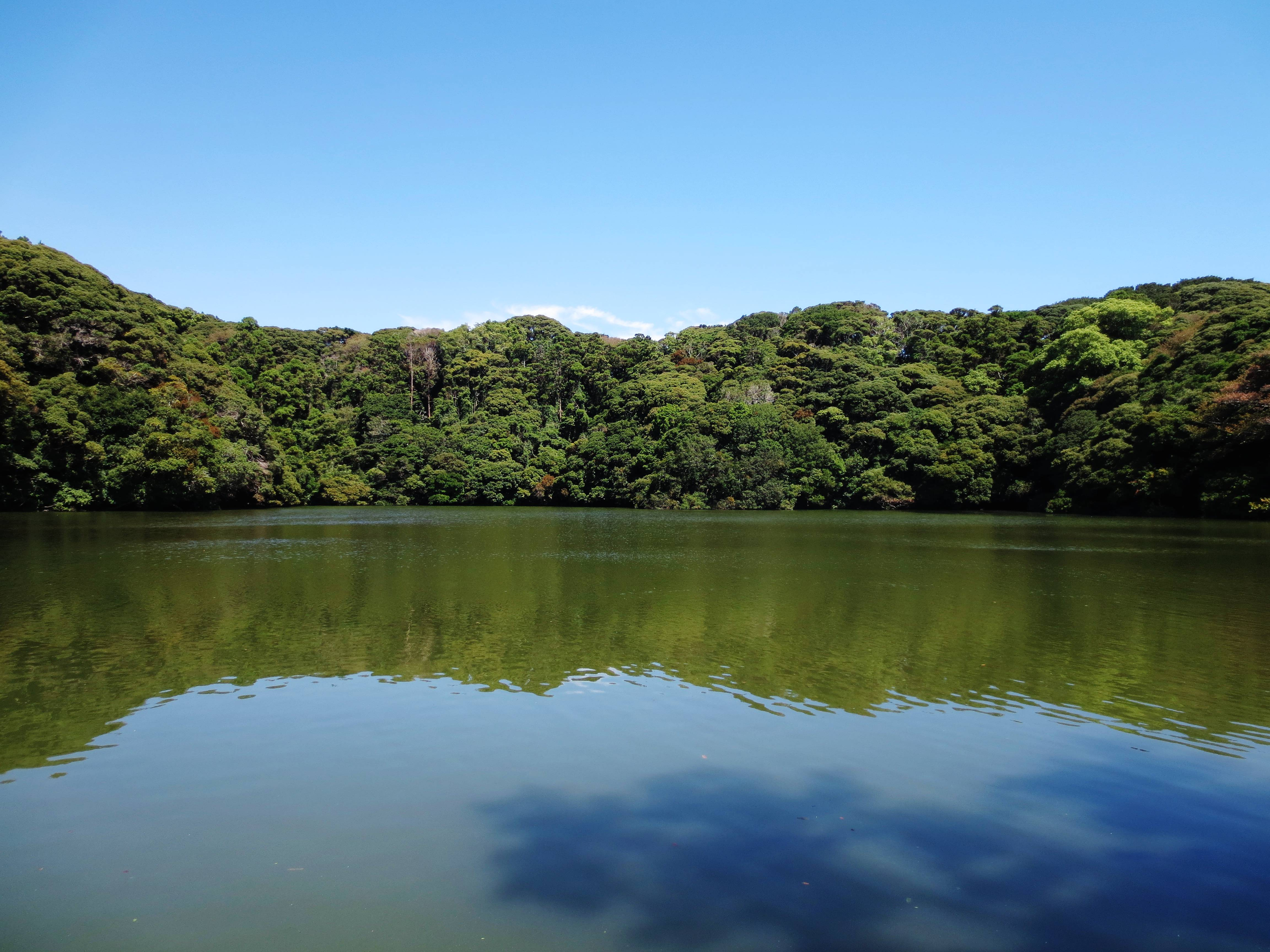 Sakuragaike.